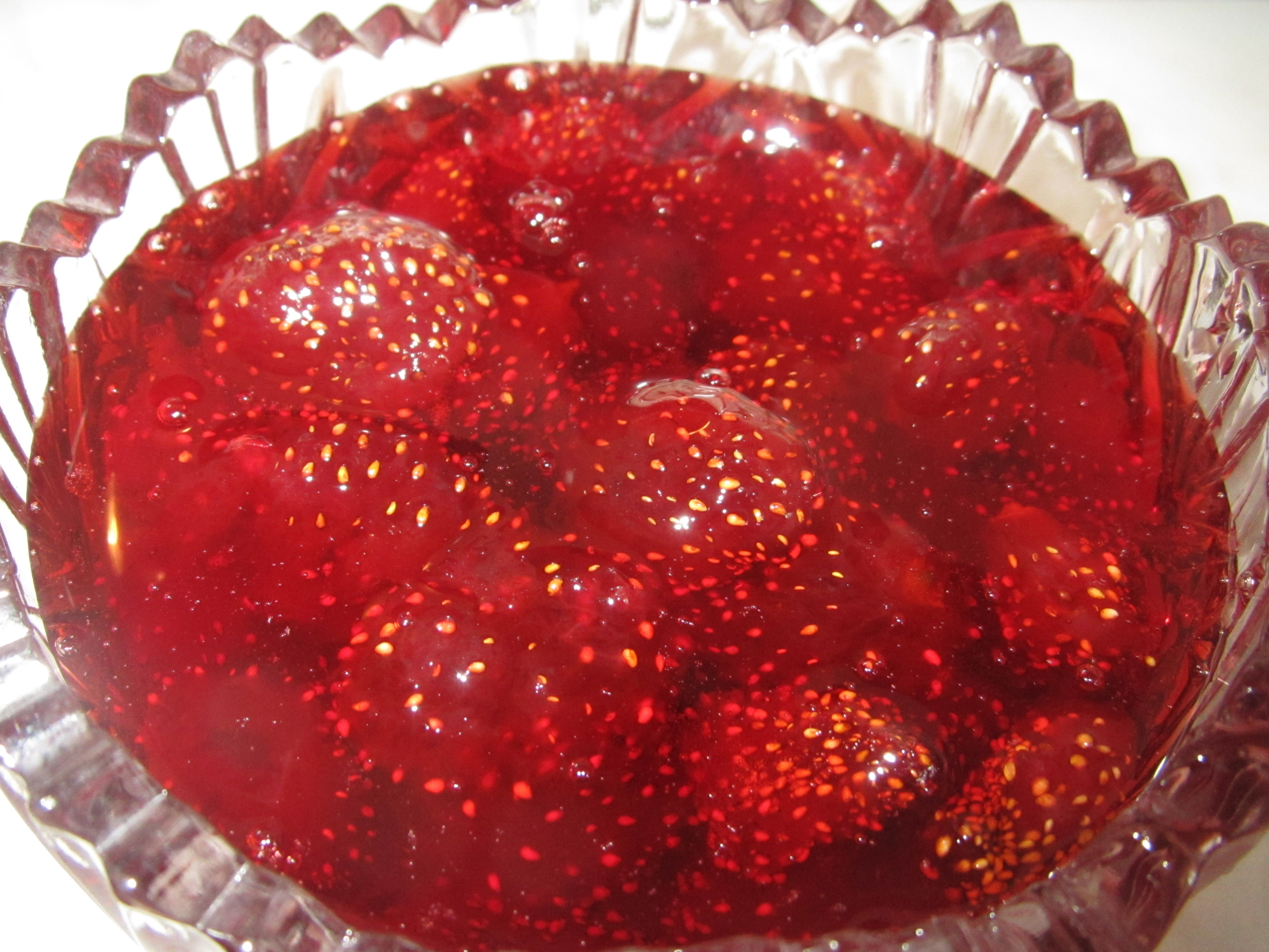 Strawberry jam. This jam is making by user e-citizen (moonsun1981) from Azerbaijan